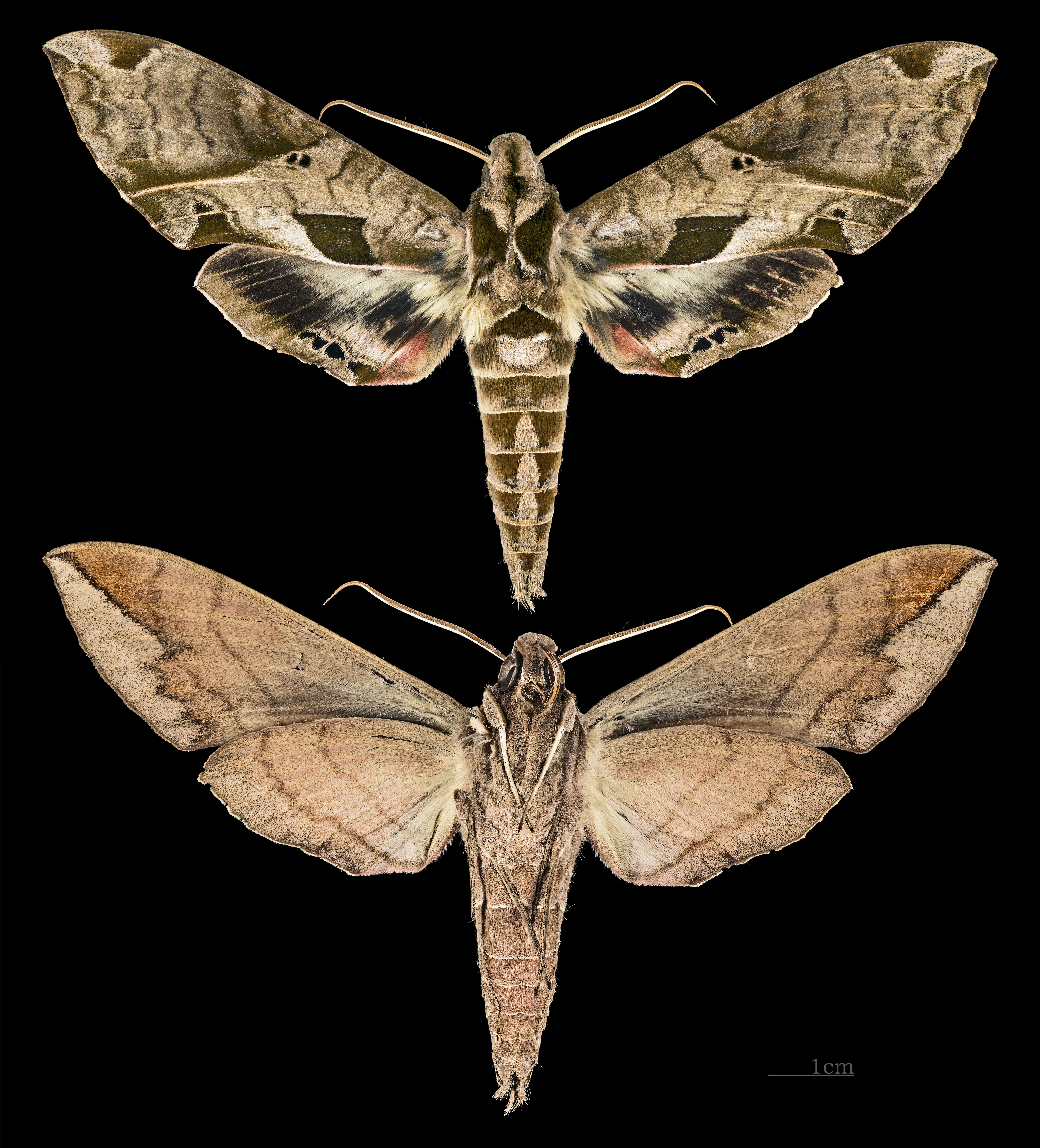 Eumorpha analis - Two views of same specimen Collection of the Mathematician Laurent Schwartz